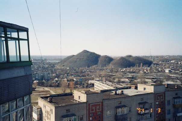 A View of the KhBK (cotton plant) area of Shakhty, with some of the coal mines visible.